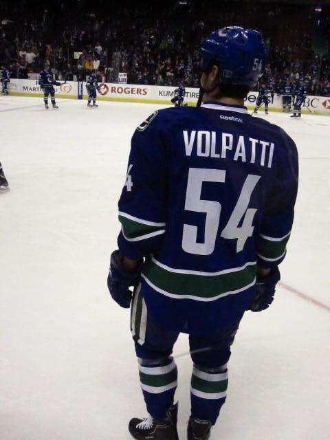 Aaron Volpatti during the pre-game warm up against the Nashville Predators on Dec. 1. 2011.